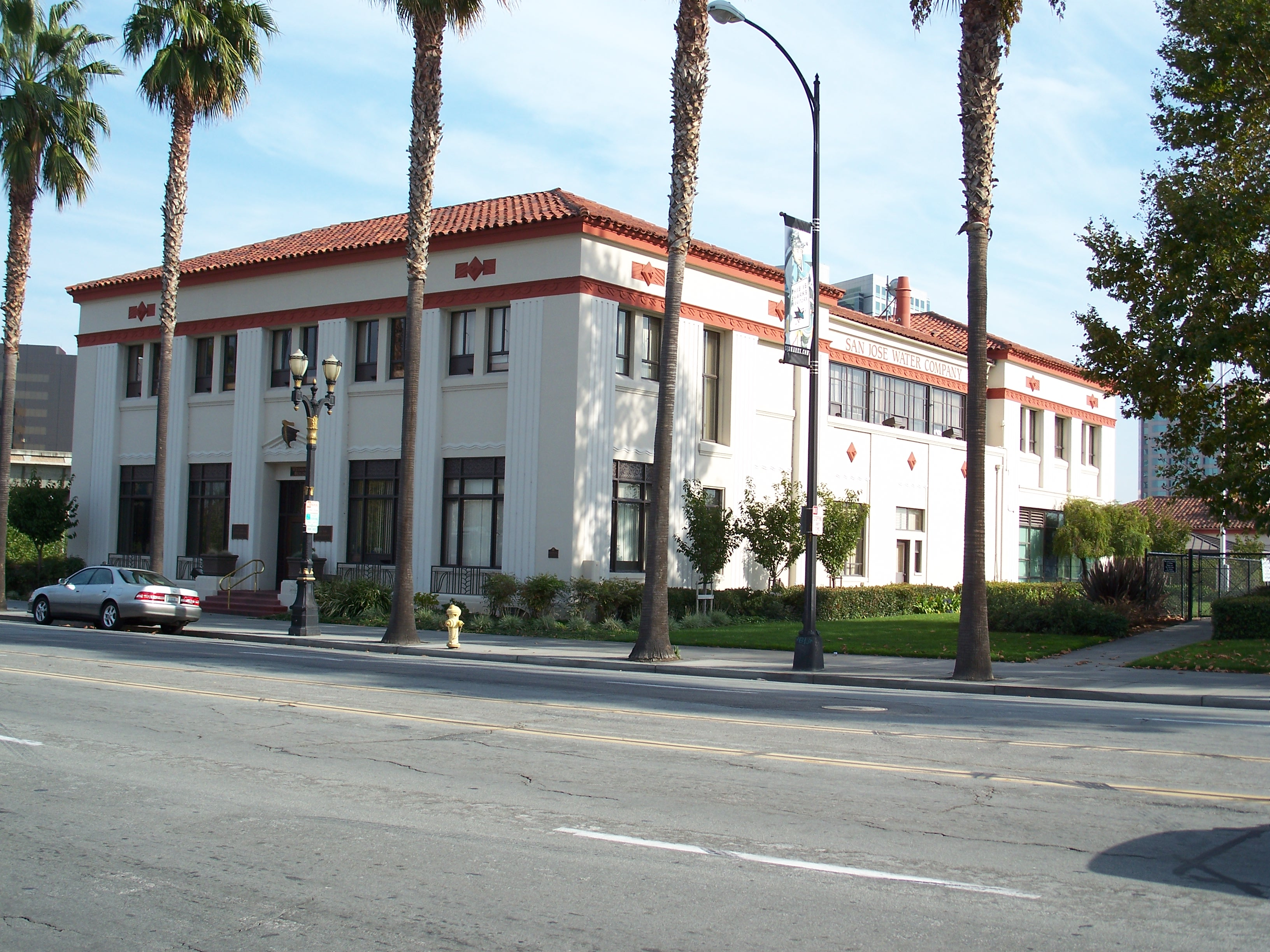 San Jose Water Works. 374 West Santa Clara Street. San Jose, California, USA